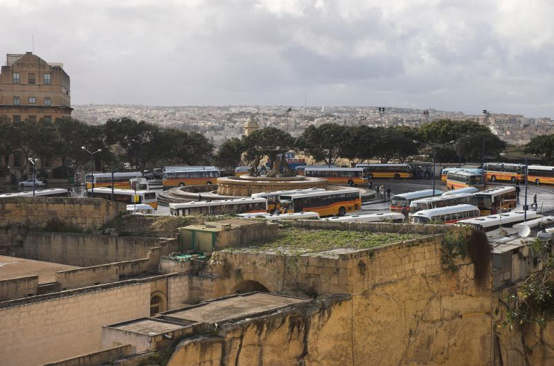 Valletta bus station, Malta.